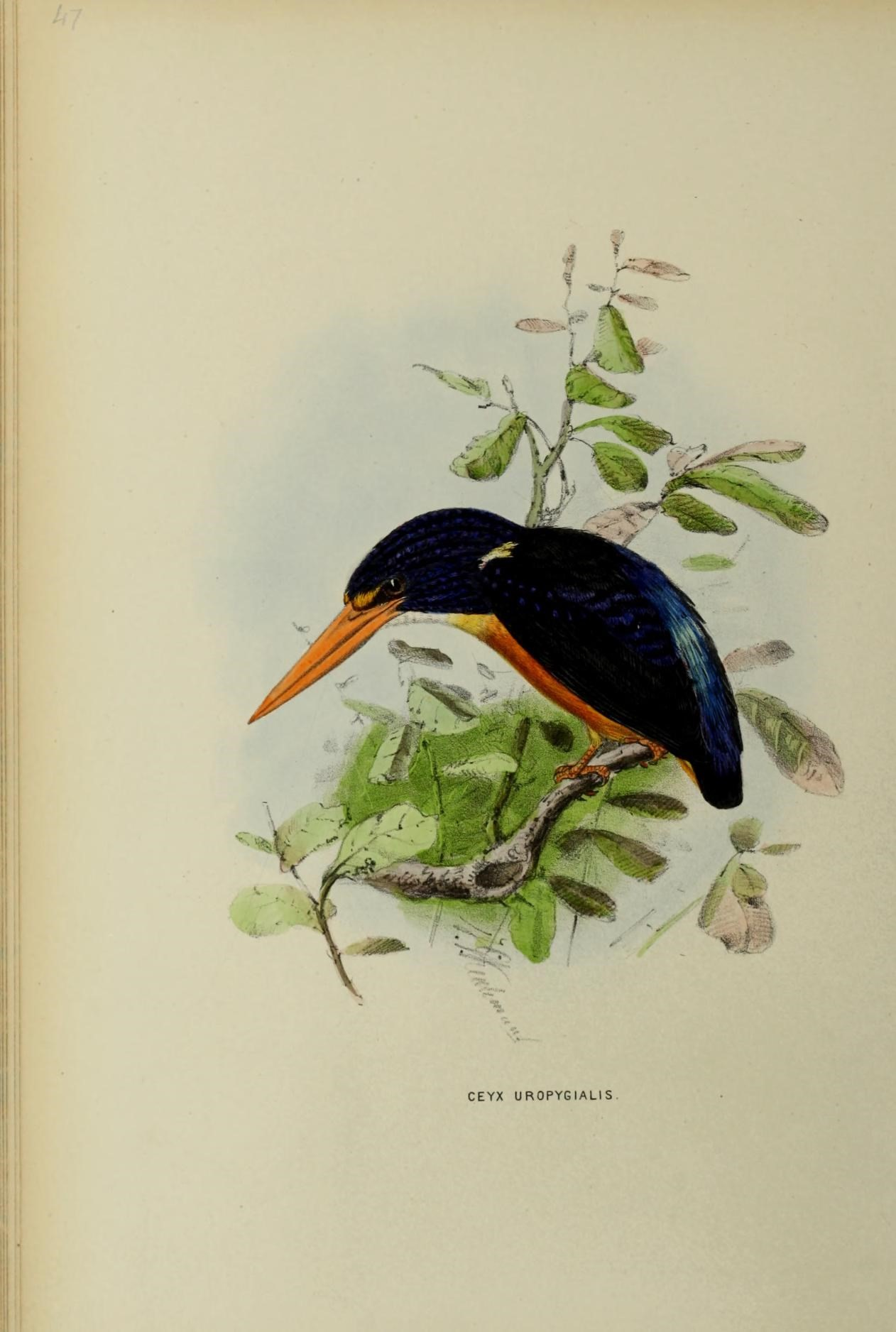 CEYCOPSIS FALLAX